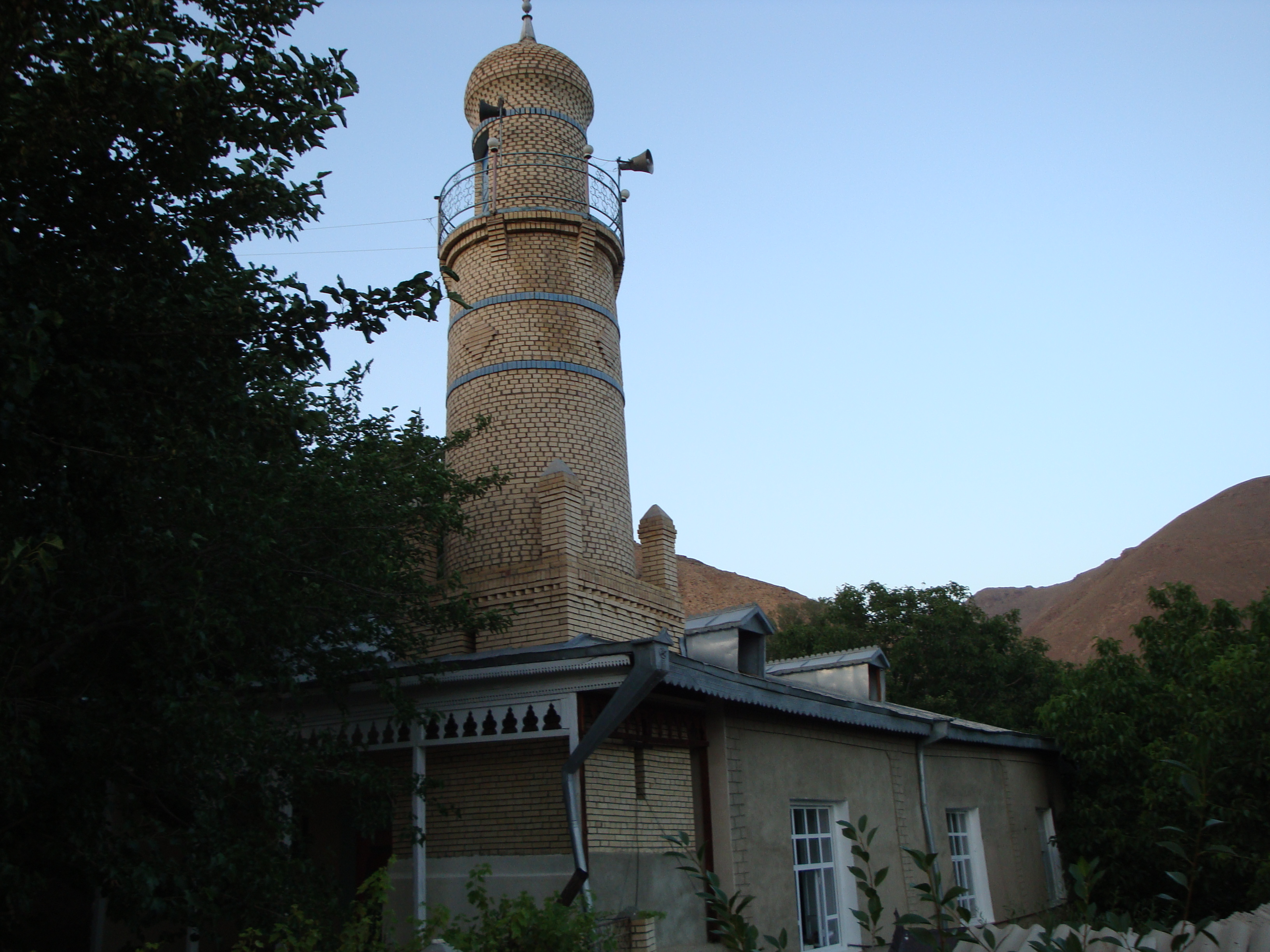 Dirnis Mosque in Ordubad Rayon of Azerbaijan. 19th c.